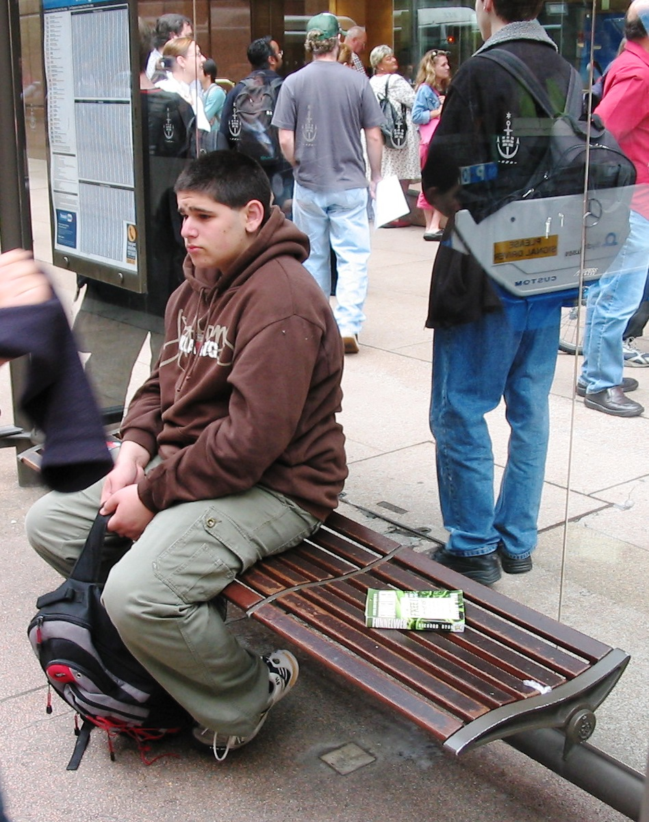 Book released onto a bench at a bus stop in Martin Place, Sydney.